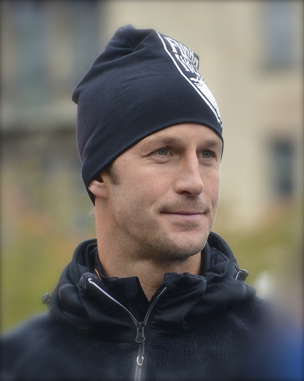 Anders Södergren in Stockholm October 19, 2014.